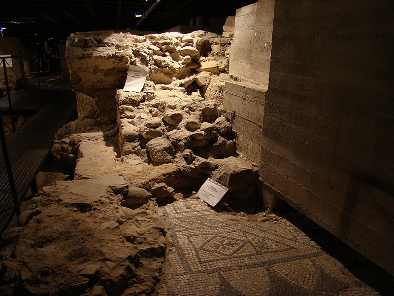 Church of Santi Giovanni e Reparata, Lucca, Tuscany, Italy. Paleochristian mosaics in the basement.